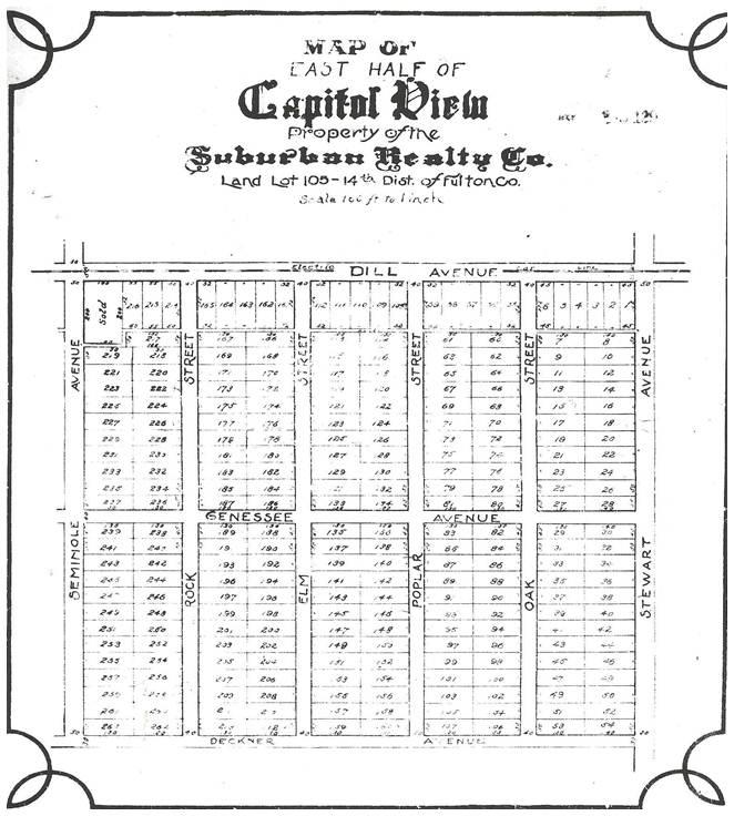 Capitol View Historical Layout1